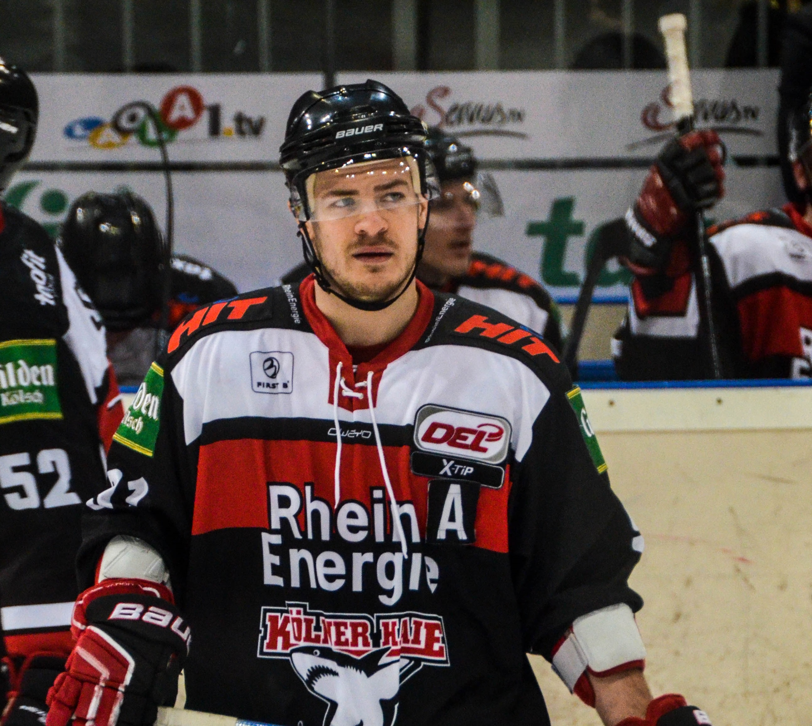 Moritz Müller